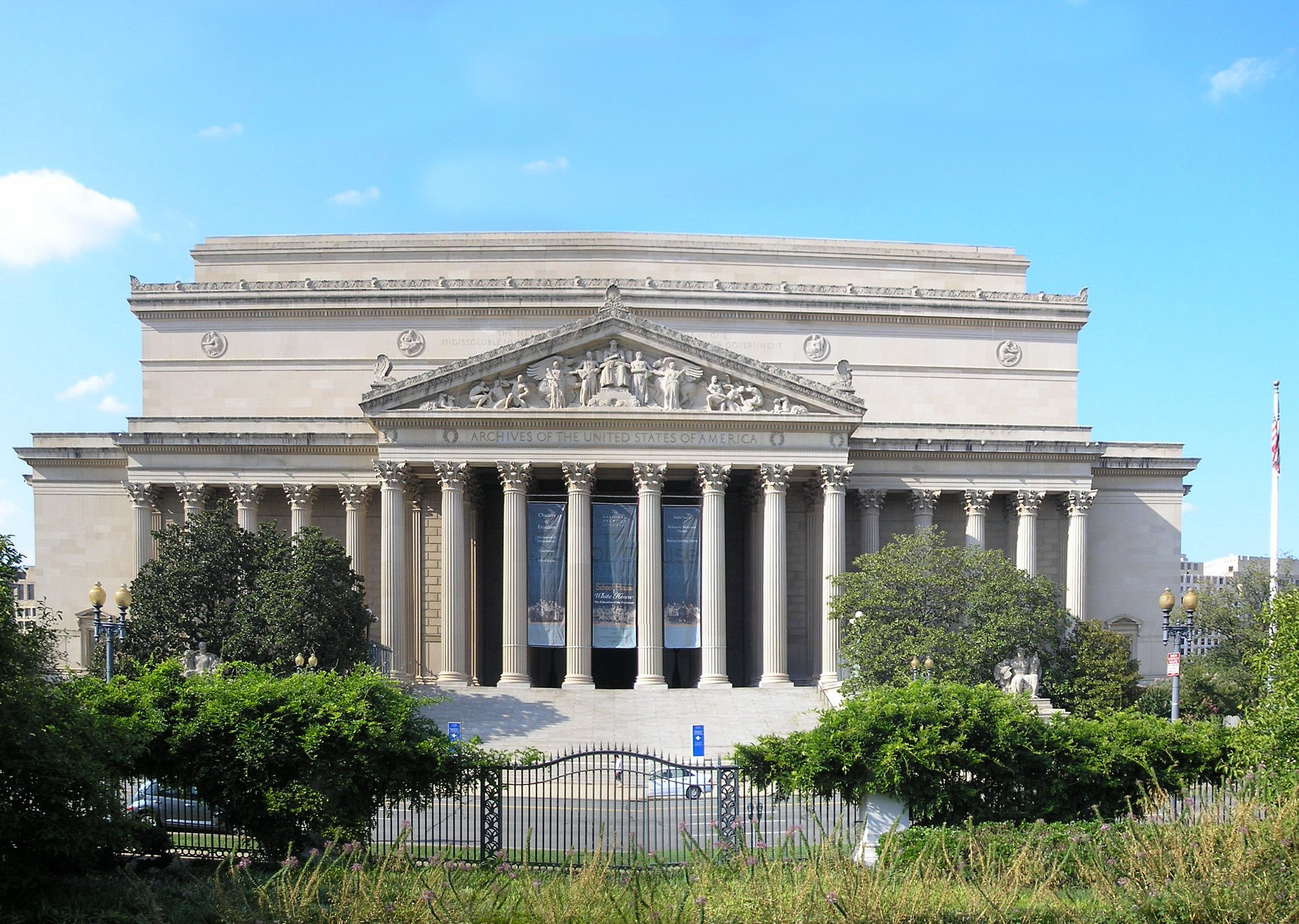 The National Archives Building in Washington, D.C..